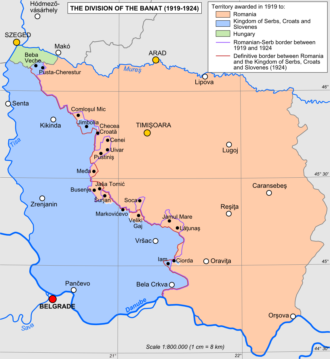 The division of the Banat (1919-1924).